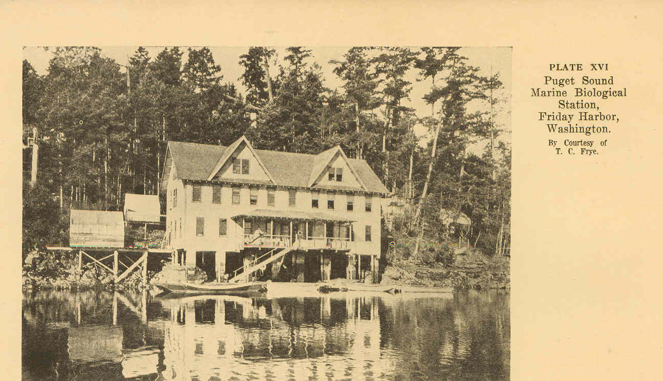 Puget Sound Marine Biological Stateion, Friday Harbor, Washington Subject: Friday Harbor Laboratories (Washington), Marine laboratories--Washington (State)--Friday Harbor Geographic Subject: United States--Washington (State)--Friday Harbor Tag: Hatcheries